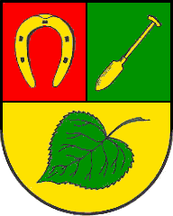 Coat of Arms of Warmsen